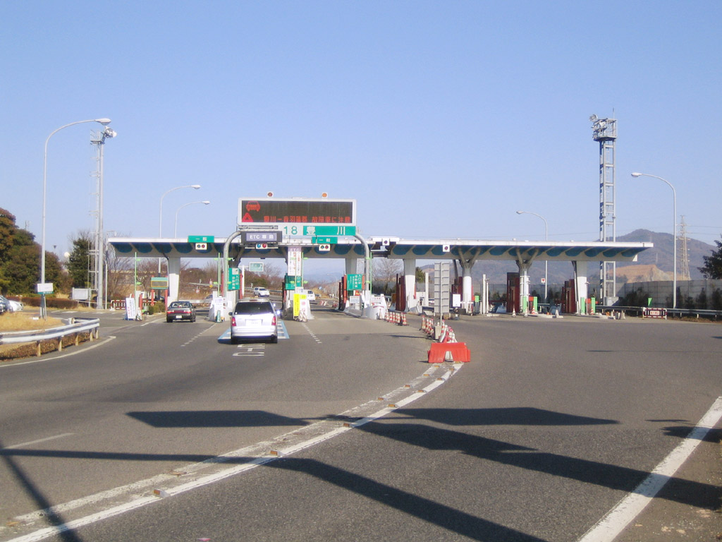 Toyokawa Interchange (豊川インターチェンジ), located at 55 Mamitsuka, Asoda-cho, Toyokawa, Aichi, Japan